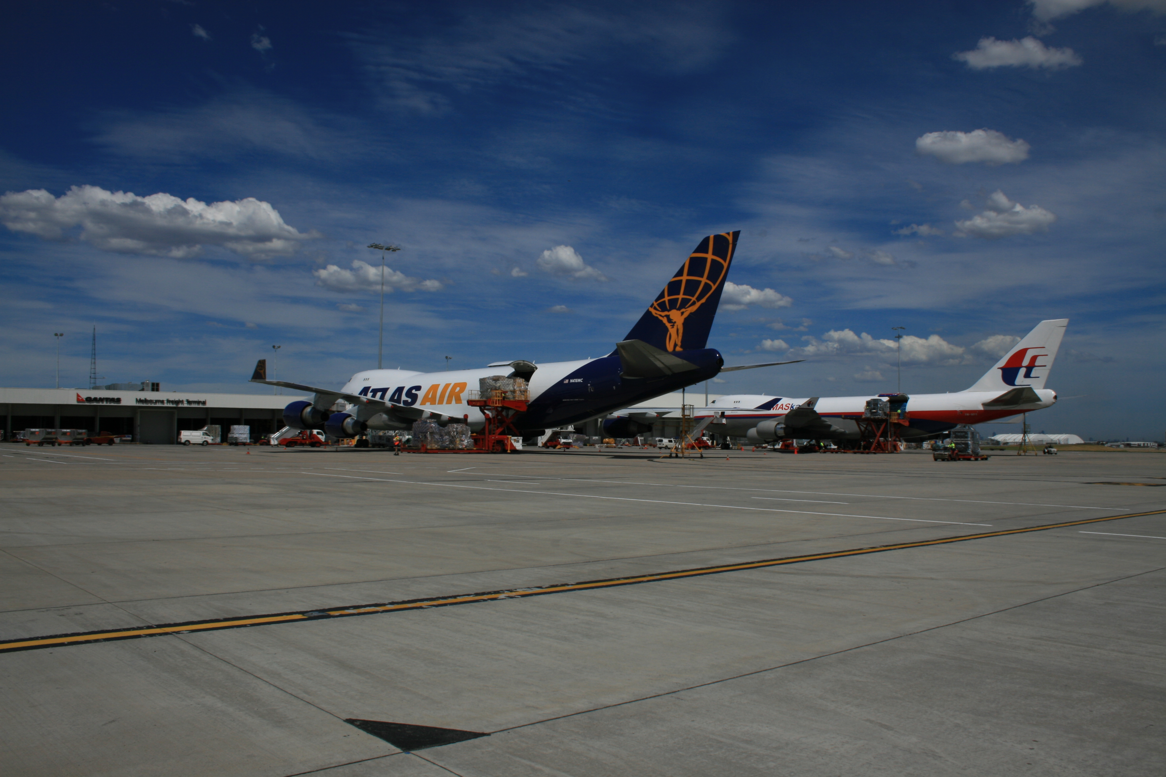 The Qantas Freight terminal at Melbourne Airport in Australia